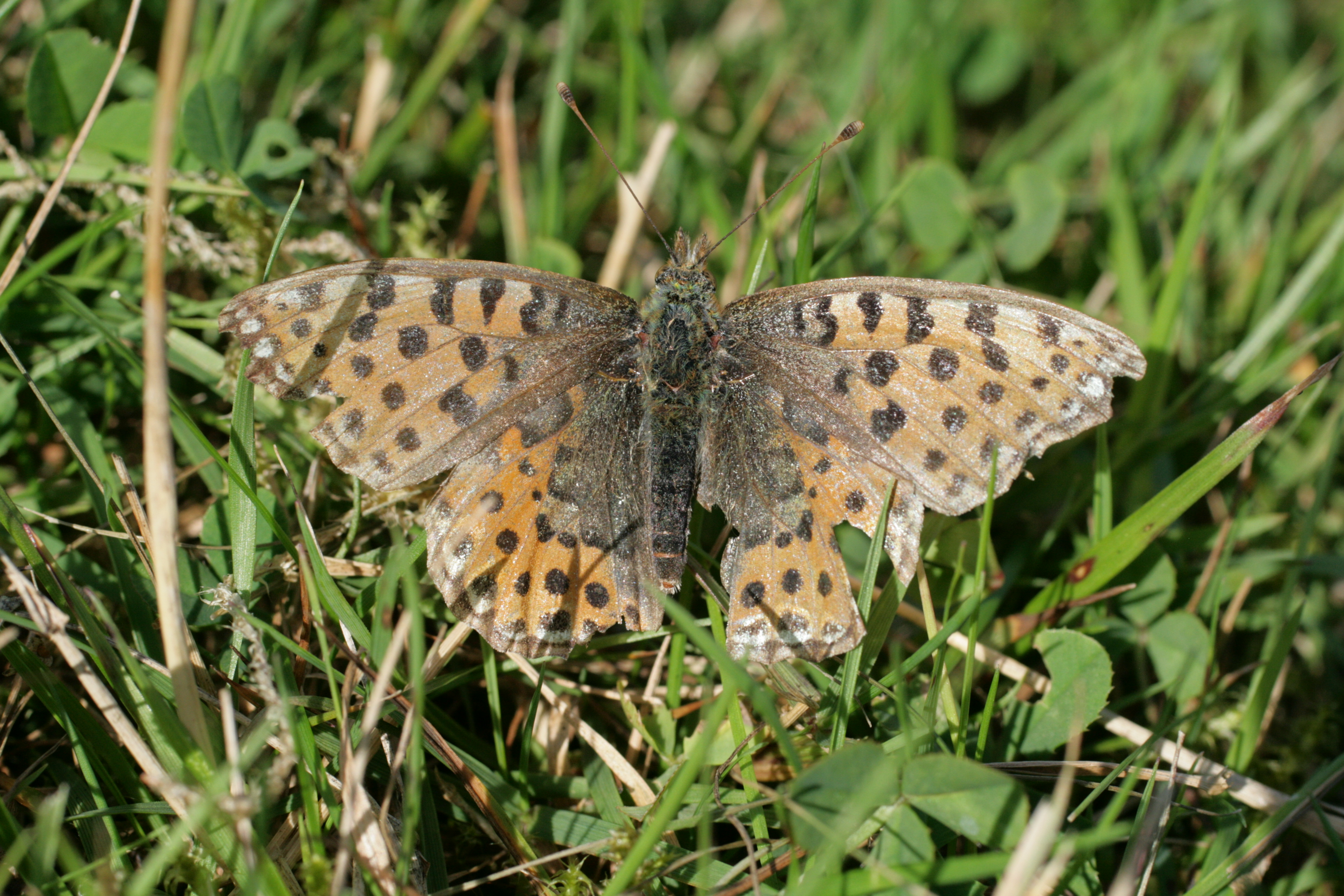 Issoria lathonia seen in Sinarp, Skåde , Sweden.